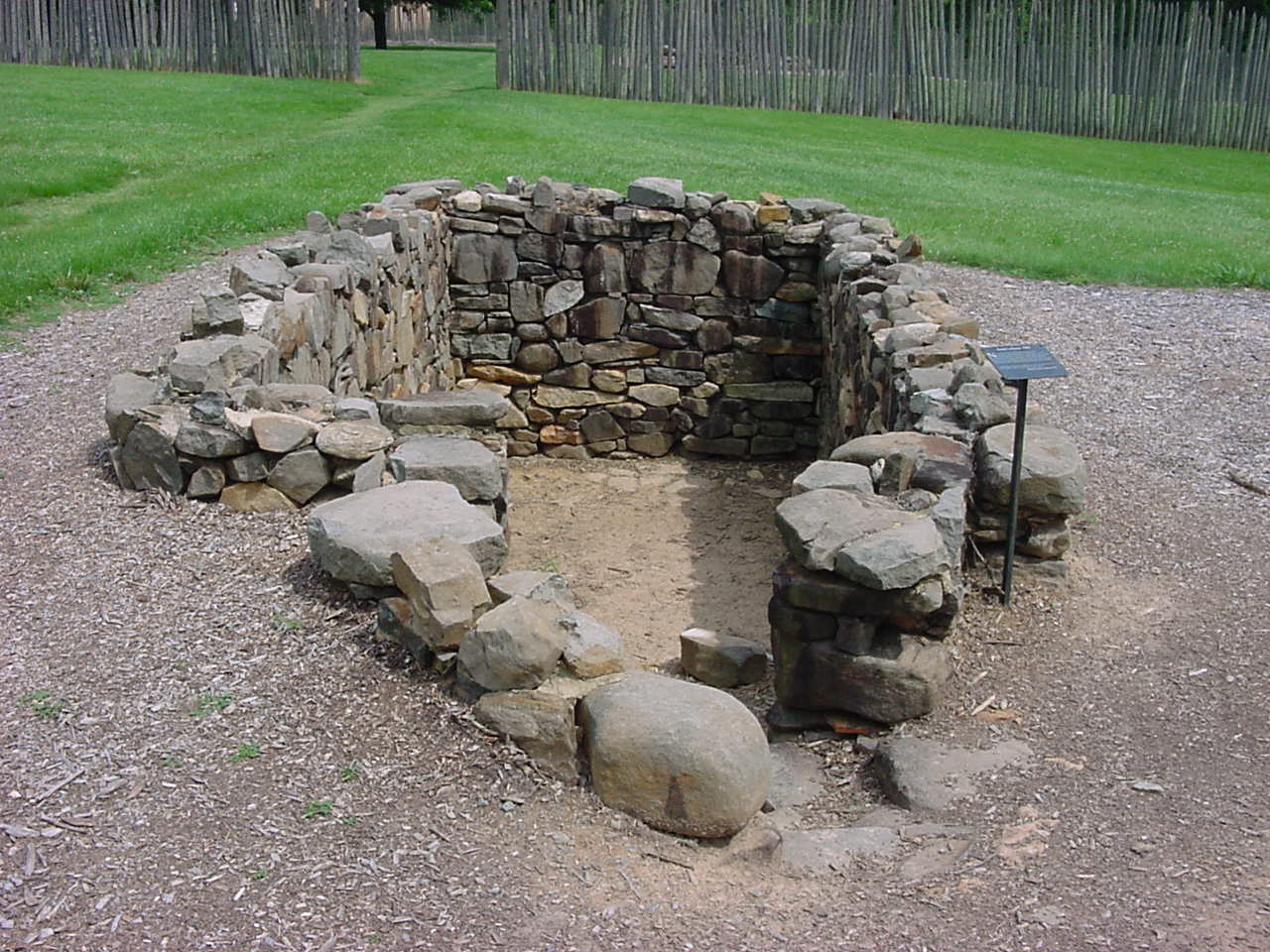 Historic Bethabara Park Winston-Salem (Forsyth County, N.C.) A sign at the remains of this house reads, "Smith House, 1762 - New arrivals from Pennsylvania helped swell Bethabara's 1762 population to 75 Moravians and 15 outside laborers. As the size of the village grew so did the need for new houses and shops. The cellar of the 1762 Smith's House was filled in with dirt in the early 19th century when much of the original town site was made into farmland."